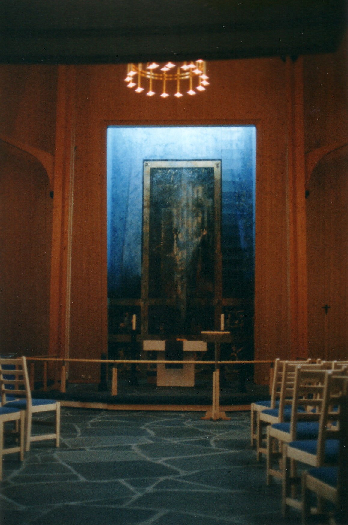 The altarpiece of Seegård Church in Snertingdal near Gjøvik, South Norway.